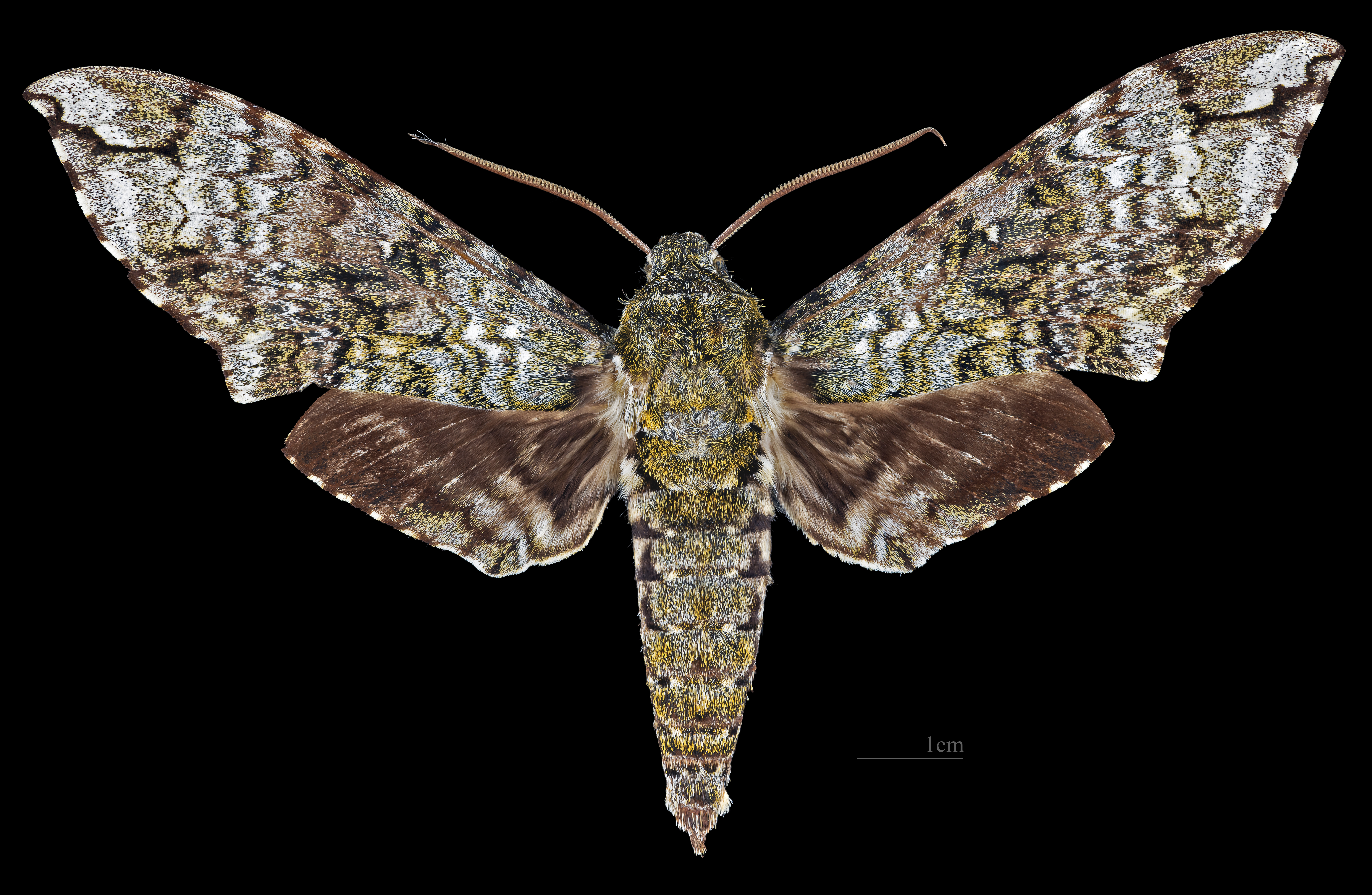 Manduca lichenea - Dorsal side Collection of the Mathematician Laurent Schwartz